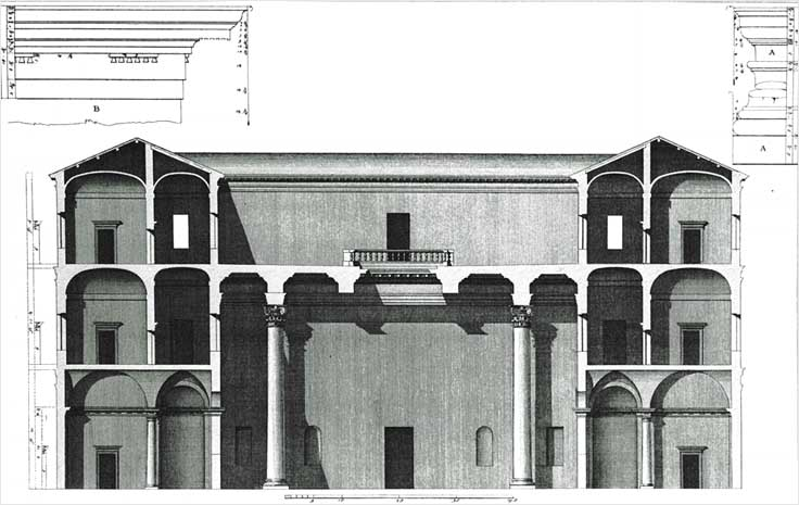 Convento della Carità in Venice designed by Andrea Palladio, 1560. Drawing by Ottavio Bertotti Scamozzi, 1783.